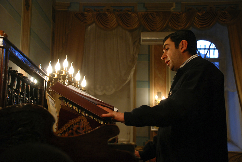 The Synagogue in Tbilisi Georgia